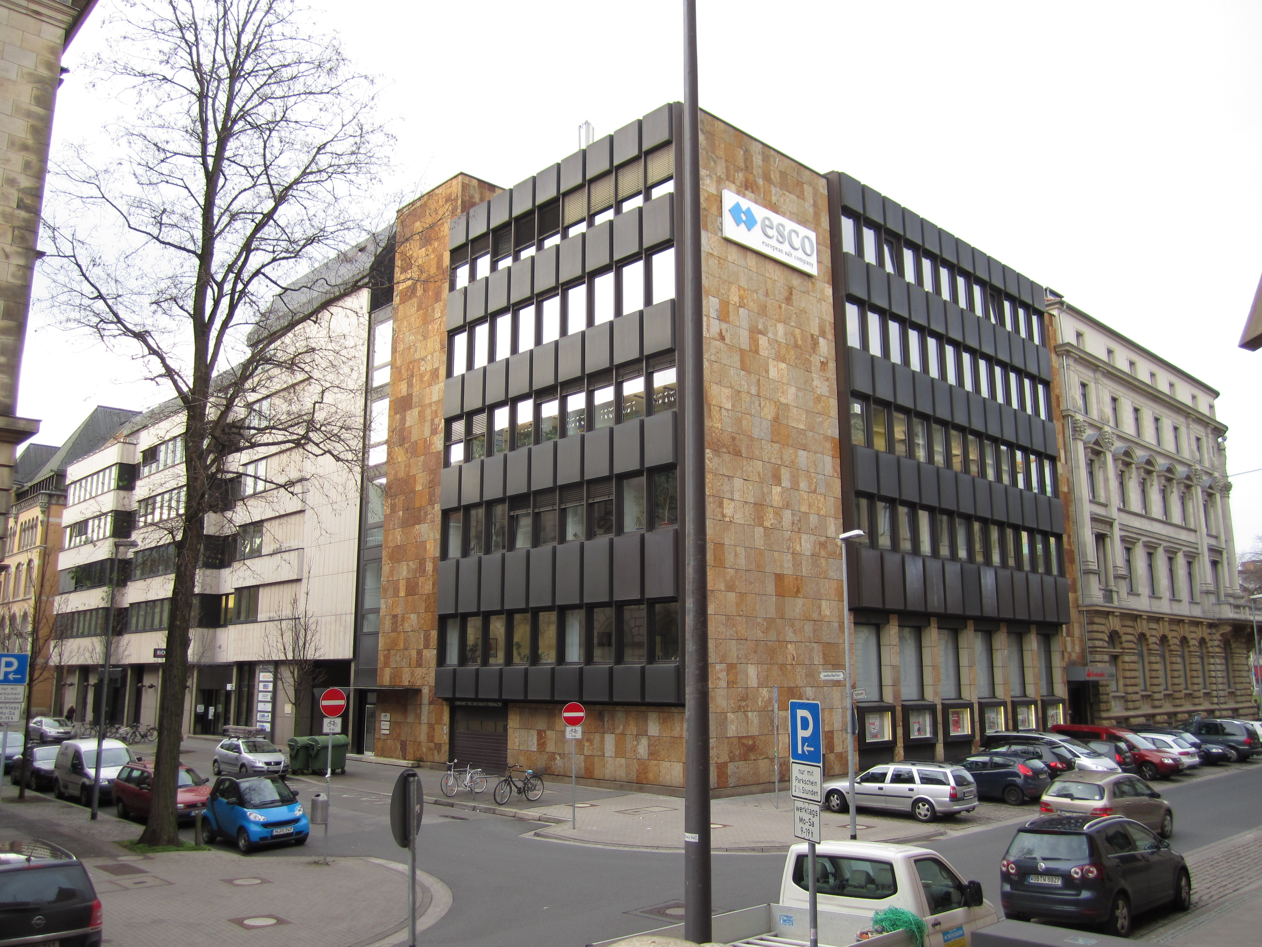 Office of ESCO (Europan Salt Company), Hanover, Germany.